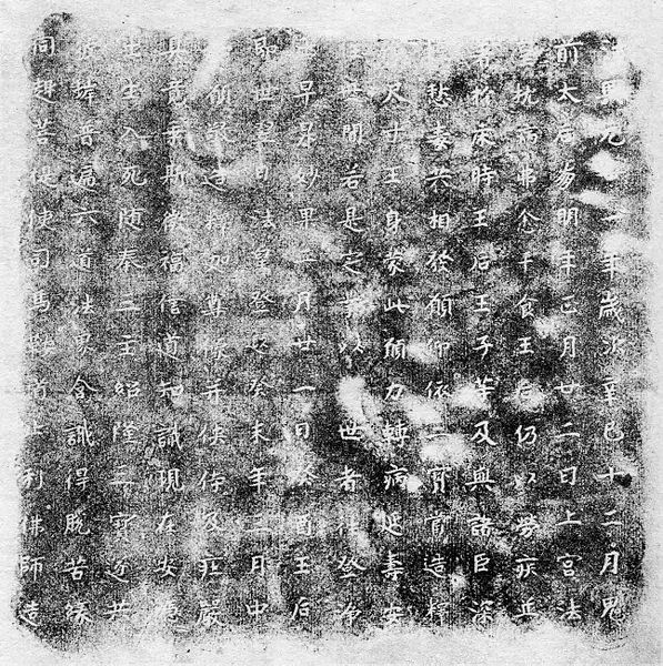 Inscription on the halo of Shakyamuni Buddha Triad in Horyu-ji Temple. ACE623, about 33cm height, 33cm wide